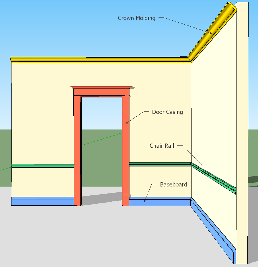 A diagram of basic interior architectural moldings, based on those common in residential construction in the United States. Created in SketchUp.